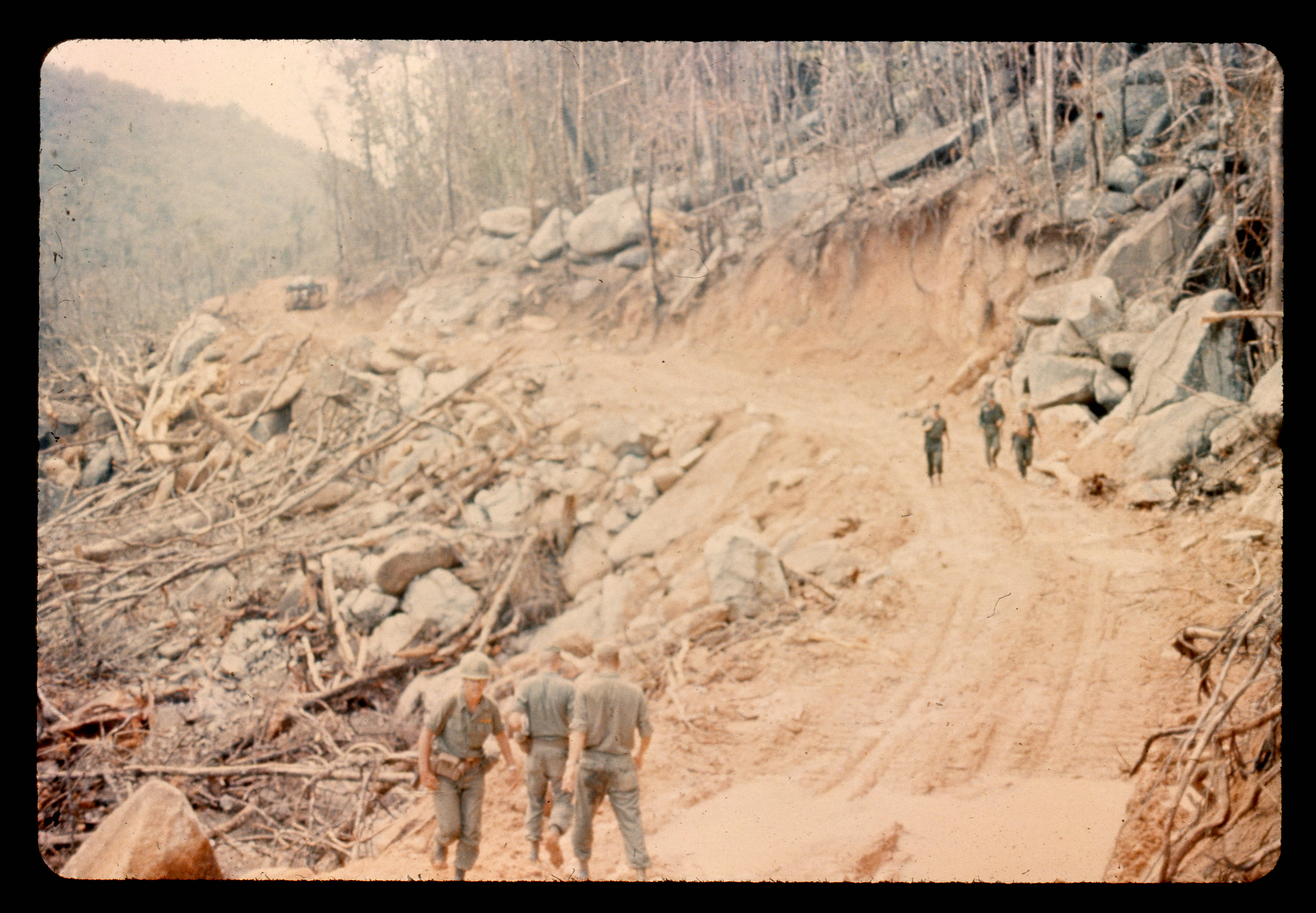 During Operation John Paul Jones it was necessary for Task Force troops from the 39th Engineer Battalion to construct an 8,000 ft road to connect the beachhead at Vung Ro Bay with Route 1. A pioneer road was cut through the difficult terrain just 20 days after work began on 25 Aug . Two dozers were lost in the effort and three to four tons of explosives were used daily.